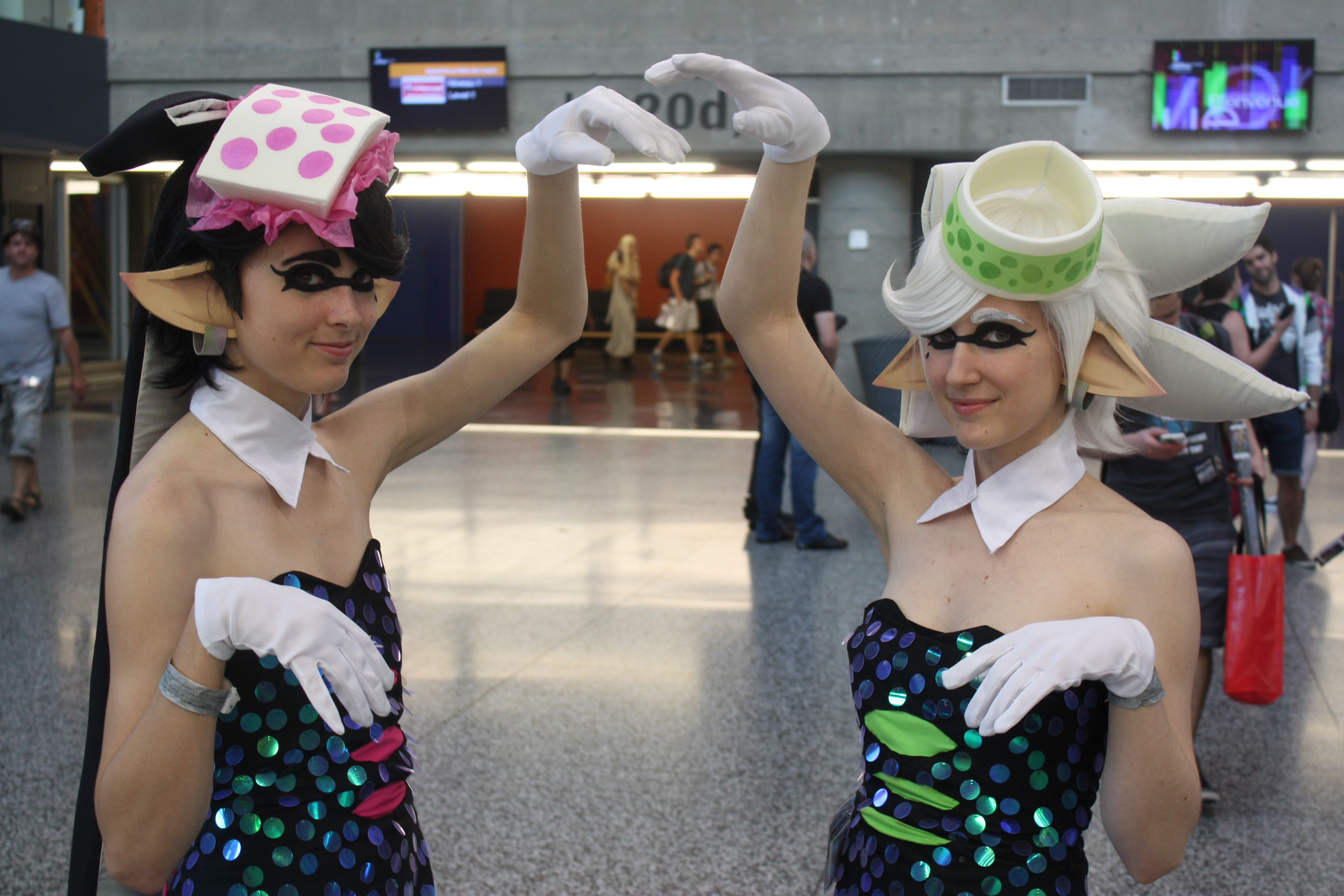 Cosplay one day two of Montreal Comiccon 2015.